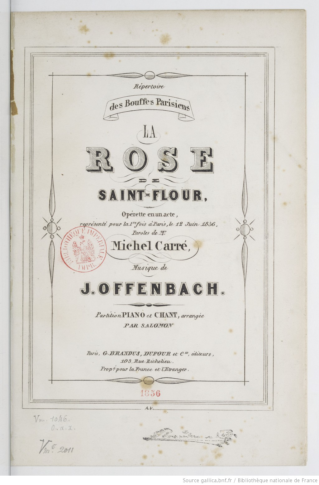 La Rose de Saint-Flour, operetta by Jacques Offenbach and Michel Carré, title page of piano reduction by Salomon, published by G. Brandus